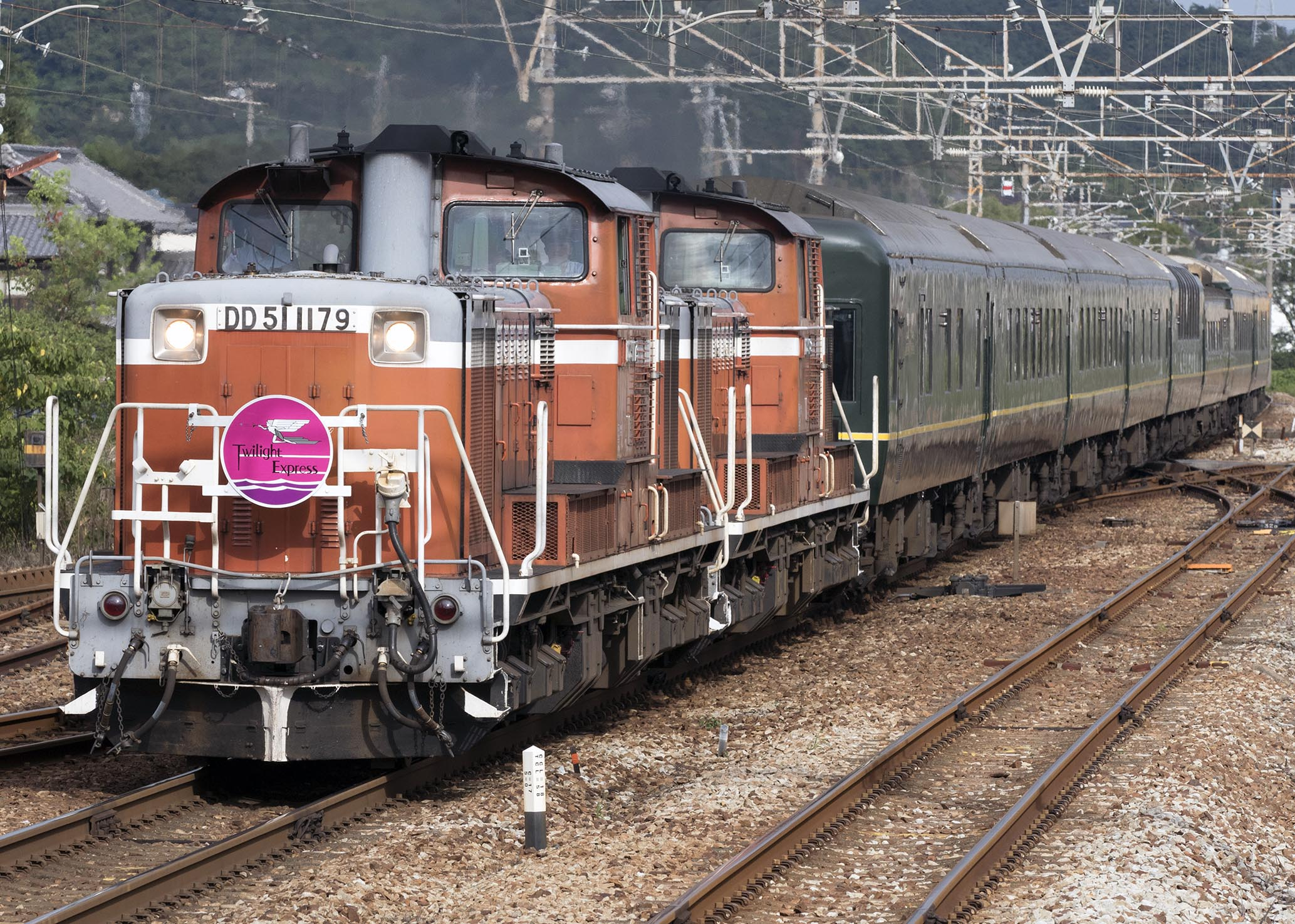 JR West Class DD51 diesel locomotives DD51 1179 and 1186 hauling the Twilight Express rake on a special cruise service